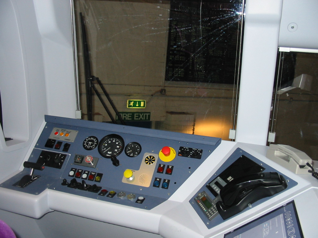 The cab in the mockup of the new Class 185 DMU for the TransPennine Express franchise operated by First. Photographed in the Great Hall of the National Railway Museum in York. When I took this photograph on 01 June 2004, the promotional blurb associated with the mockup said the units were due to enter service in December 2004. In reality the first unit ran in pasenger service on 14 March 2006.